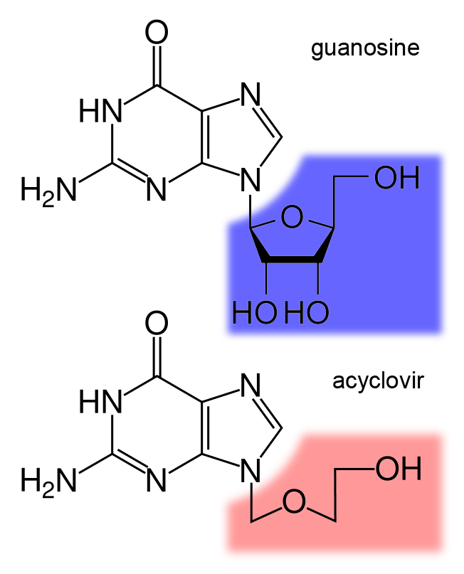 comparison of chemical structures of guanosine and guanosine analogue acyclovir